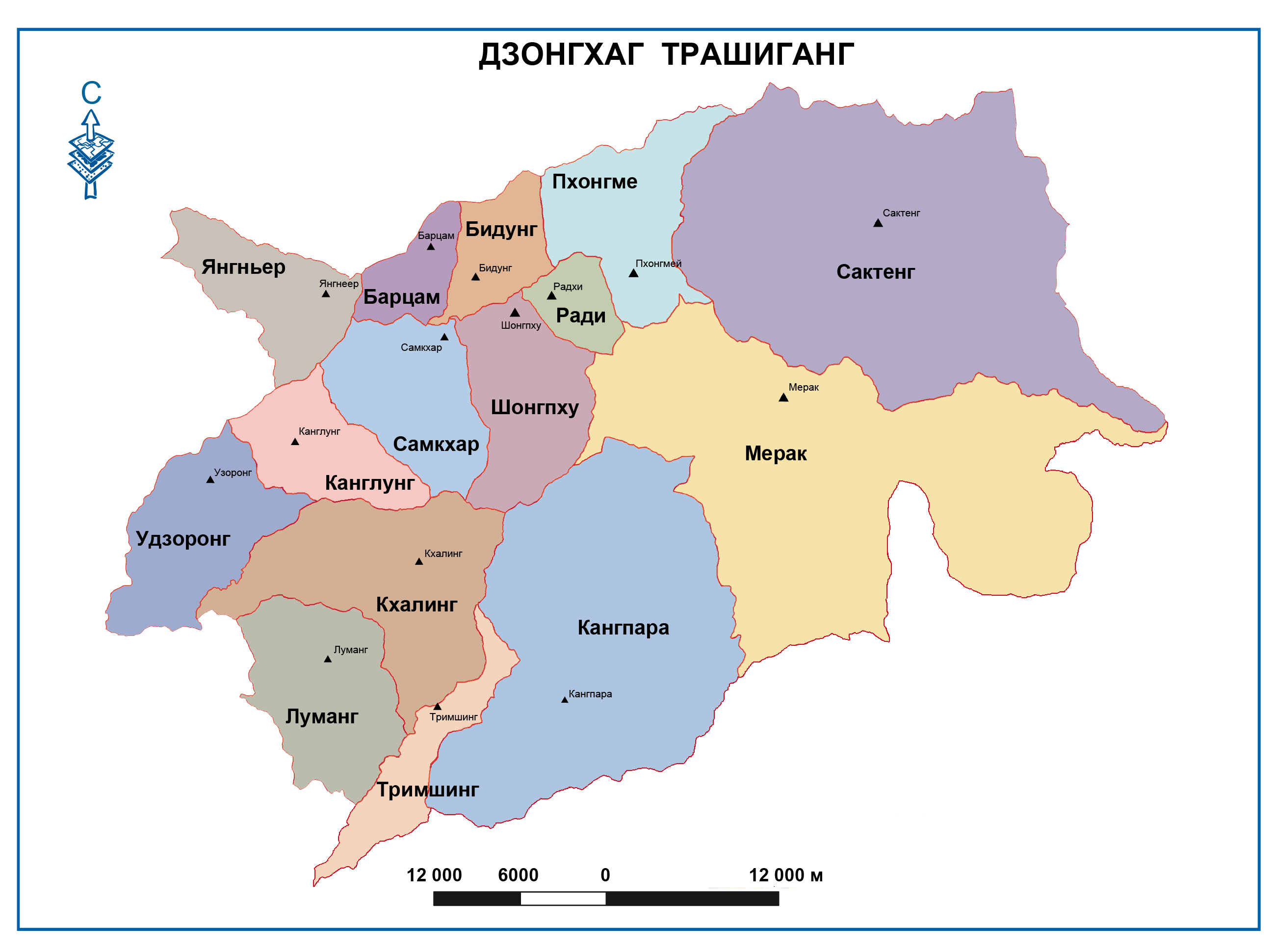 Trashigang District map, Bhutan, 2011